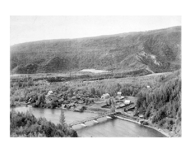 Bridge across Quesnel Forks, British Columbia. Photo taken 1885